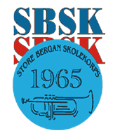 Store Bergan Skolekorps logo